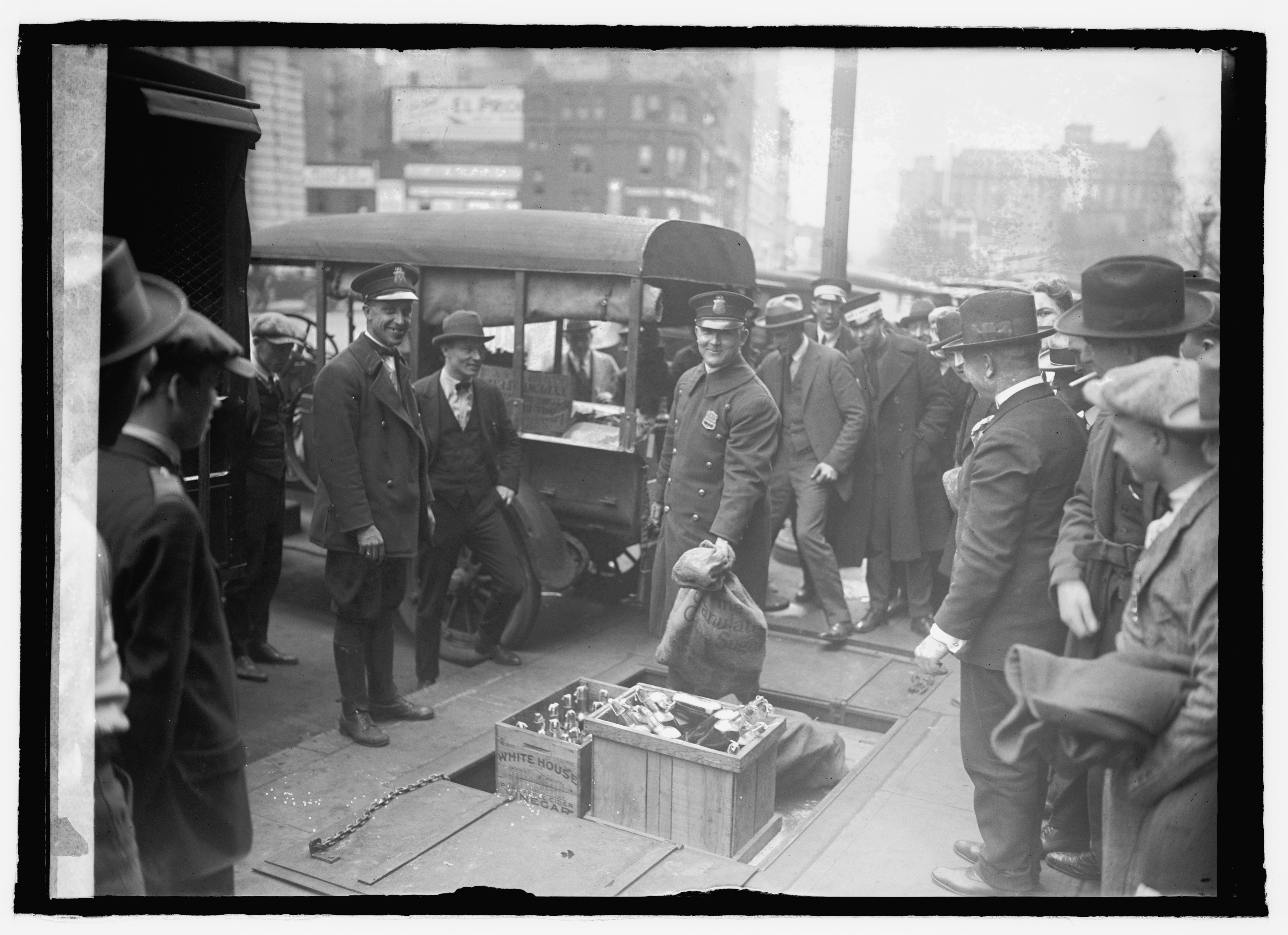 Title: Destroying booze, 3/23/23 Abstract/medium: 1 negative : glass ; 5 x 7 in. or smaller